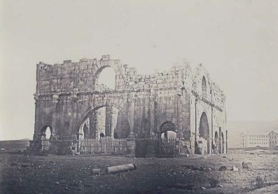 Ruins of the Pretorium — Lambaesis, Algeria.